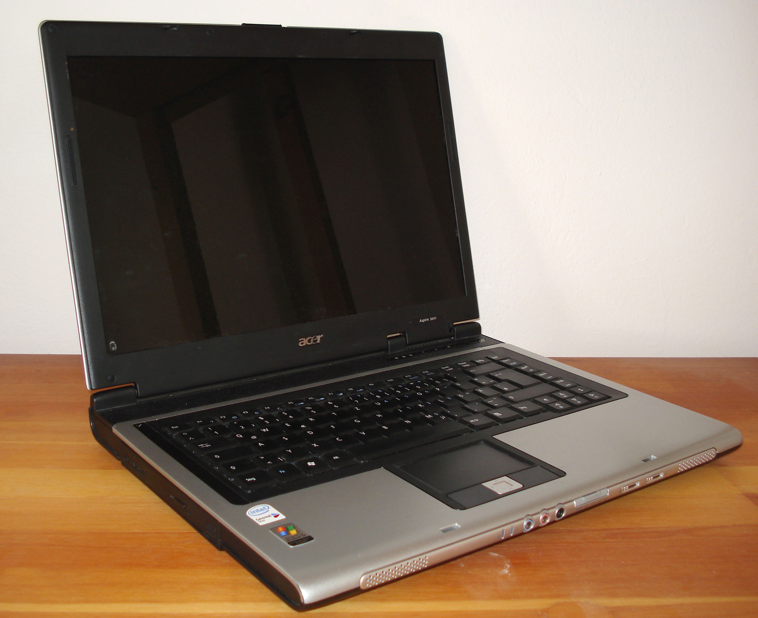 Open Acer Aspire 5601 notebook